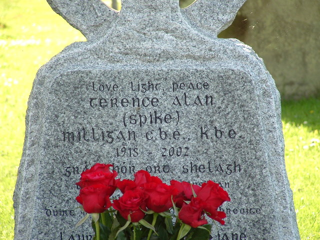 Spike Milligan's Headstone, Winchelsea, E.Sussex. The epitaph reads: "Duirt mé leat go raibh mé breoite", Irish for "I told you I was ill".